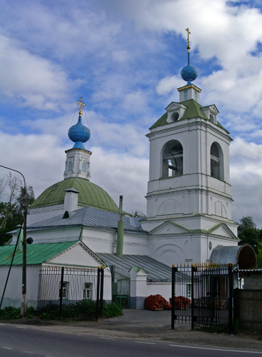 Zhilino church of the Assumption of the Divine Mother (build in XVIII century) with a Chapel of the Vladimir city Divine Mother is also located in Tomilino. Photo by Yuriy V. Lapitskiy (c) 2006 First published in Wikimedia Commons for Wikipedia Technical details: Camera model - Minolta DiMAGE F300